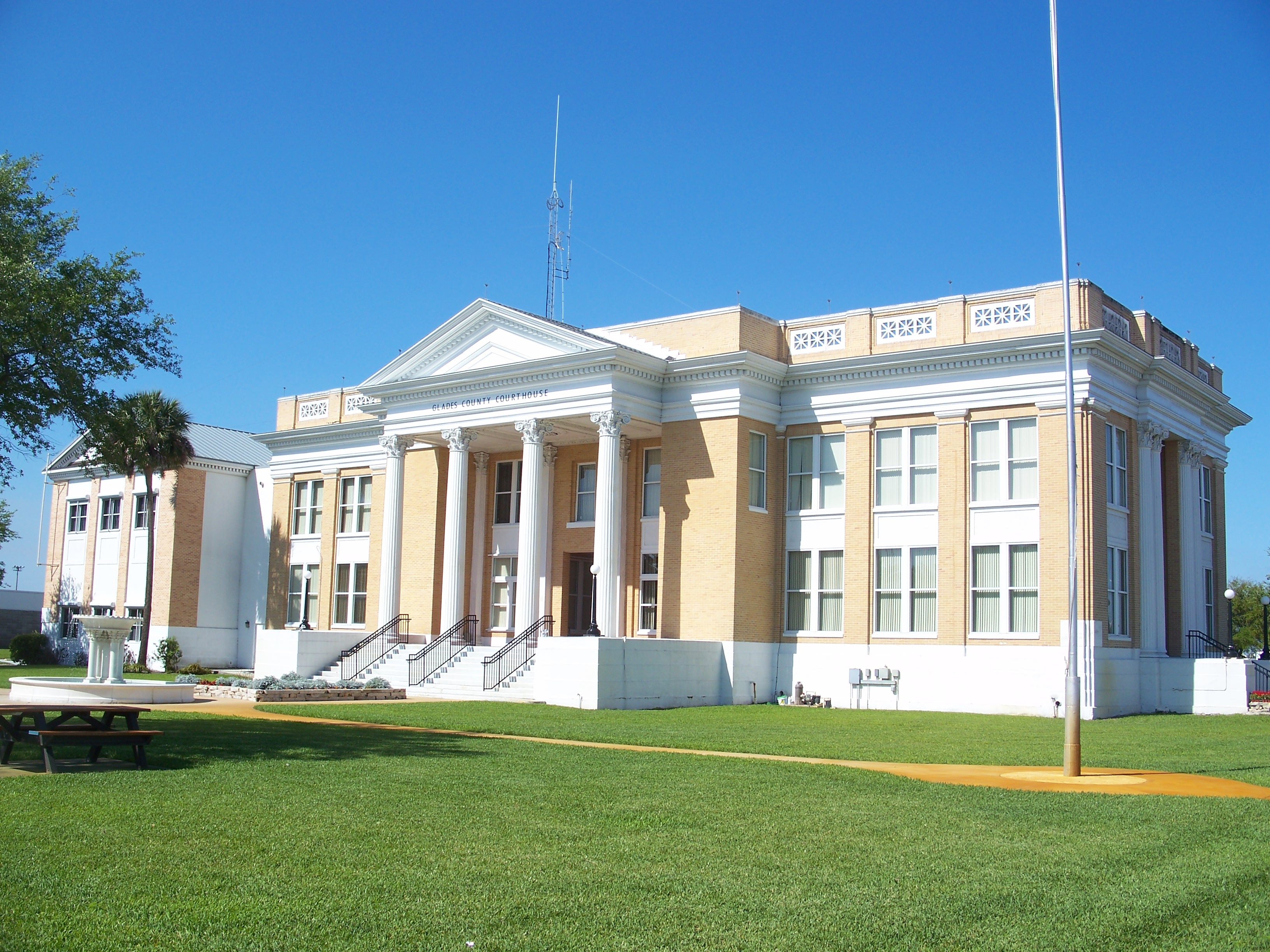 Moore Haven, Florida: Glades County Courthouse